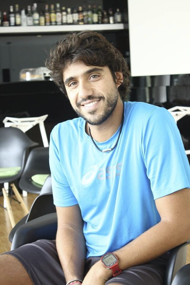 Joao Sousa tennis coach